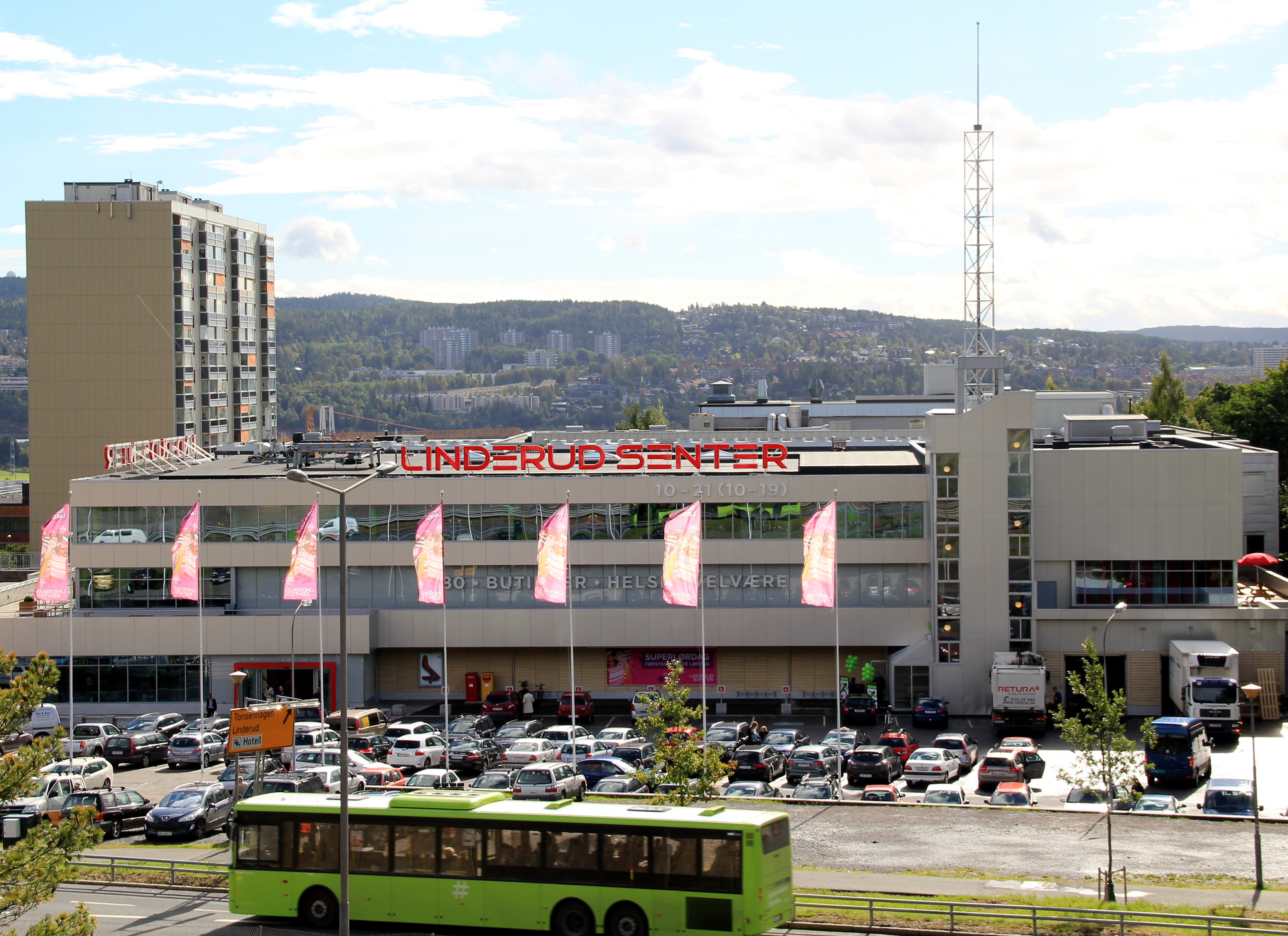 Linderud senter